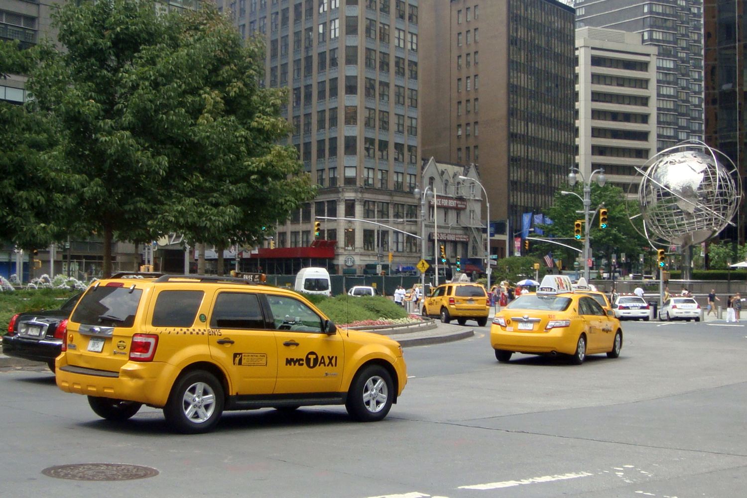 Hybrid taxis in Columbus Circle, New York City